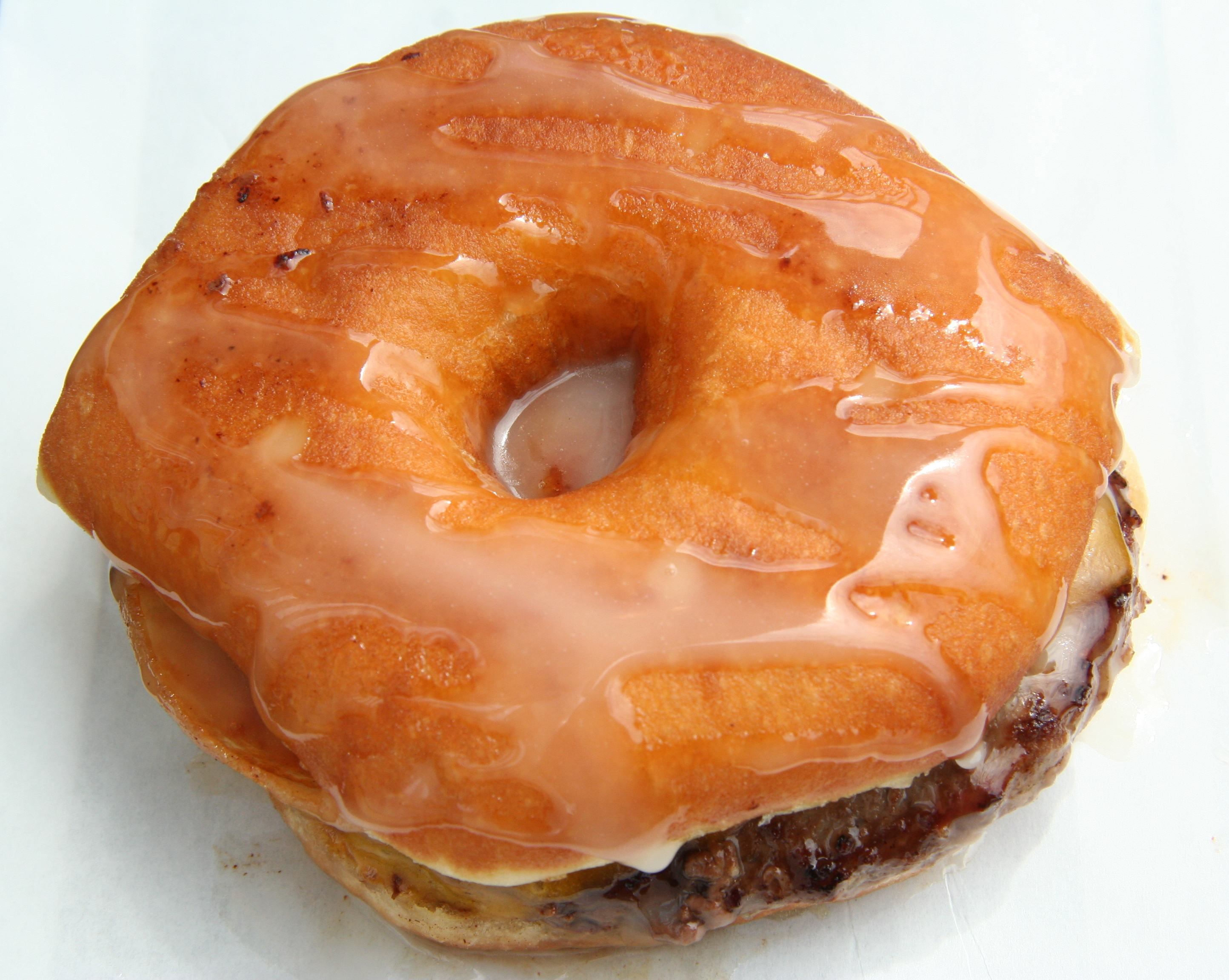 Doughnut burger: a bacon cheeseburger served in a glazed doughnut at the Olmsted County Fair in Rochester, Minnesota, United States